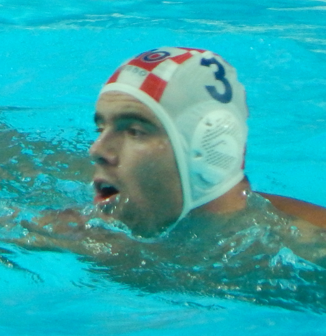 The gold medal match between Team Serbia and Team Croatia and the victory ceremony. All photos have been taken from the photographers sector. I was simply usual visitor but my ticket was to non-existent seats, therefore I was moved to that sector. All good photos I upload to WikiCommons for free use.